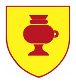 Coat of arms of Kollbrunn (Zurich, Switzerland)